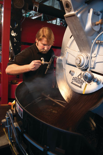 Probat coffee roaster located at Dillanos Coffee Roasters in Sumner, Washington